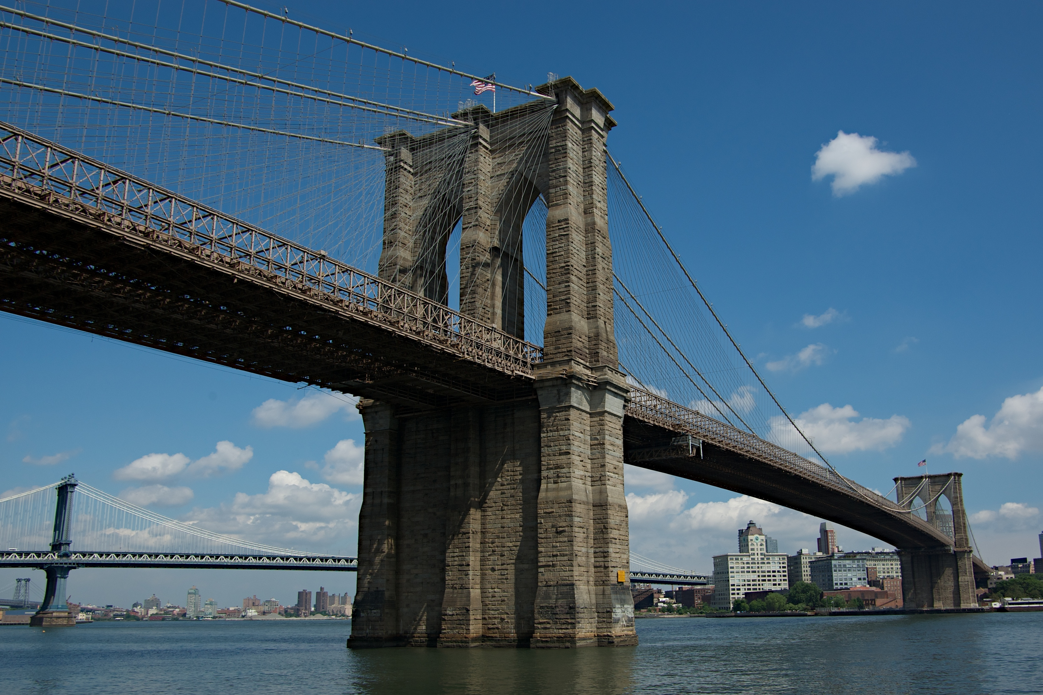 Brooklyn Bridge, as seen from the Manhattan island.